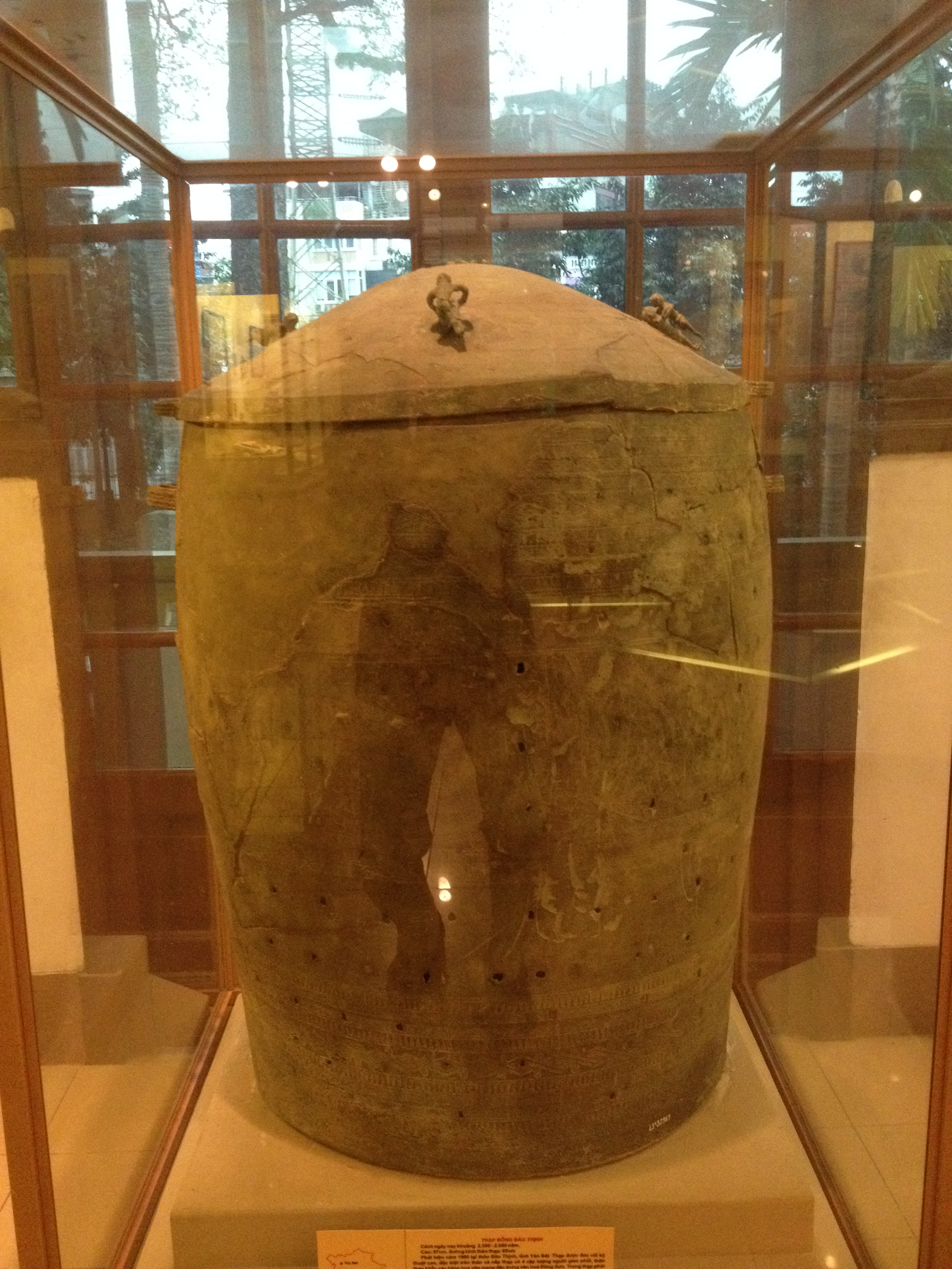 Dao Thinh Bronze jar 2500-2000 BC